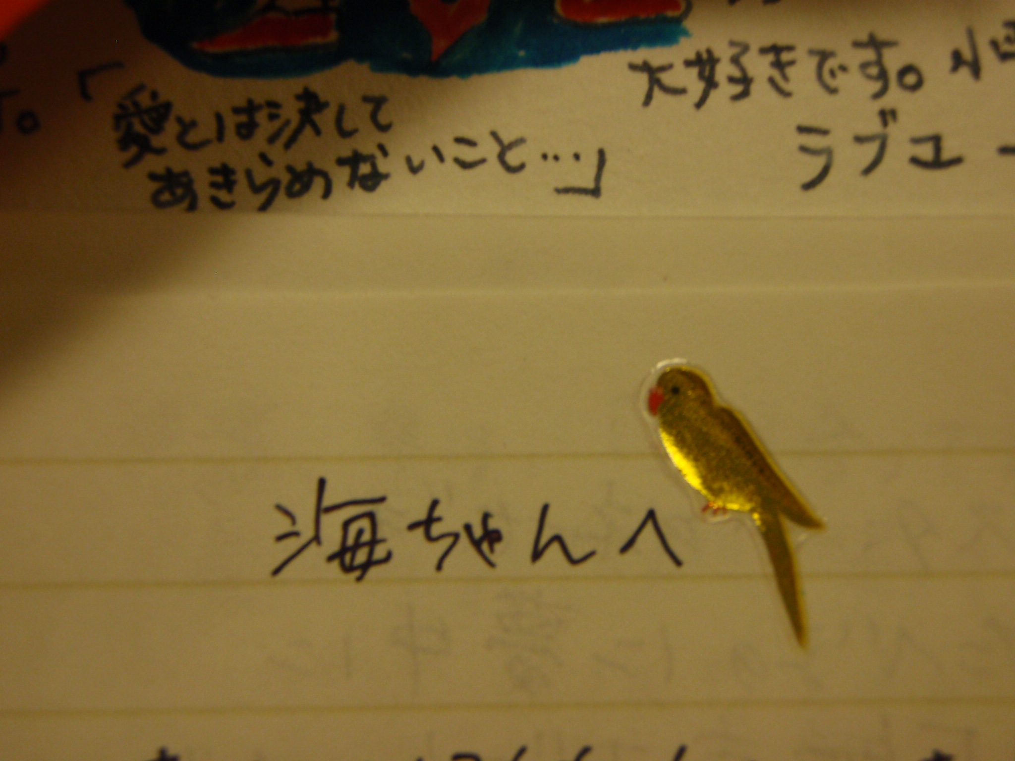 A love letter written in Japanese, 2008.